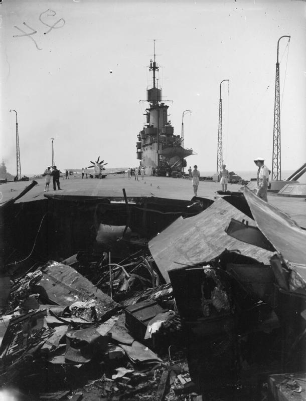 Operation Pedestal, August 1942 12 August: The bombing of HMS INDOMITABLE: Detailed photograph of the damage to HMS INDOMITABLE's flight deck.